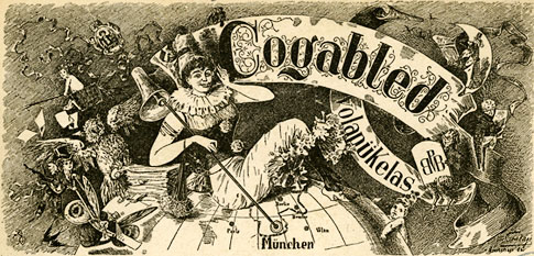 Nameplate of "Cogabled Volapükelas", No.1 1886, a comic bimonthly in Volapük.